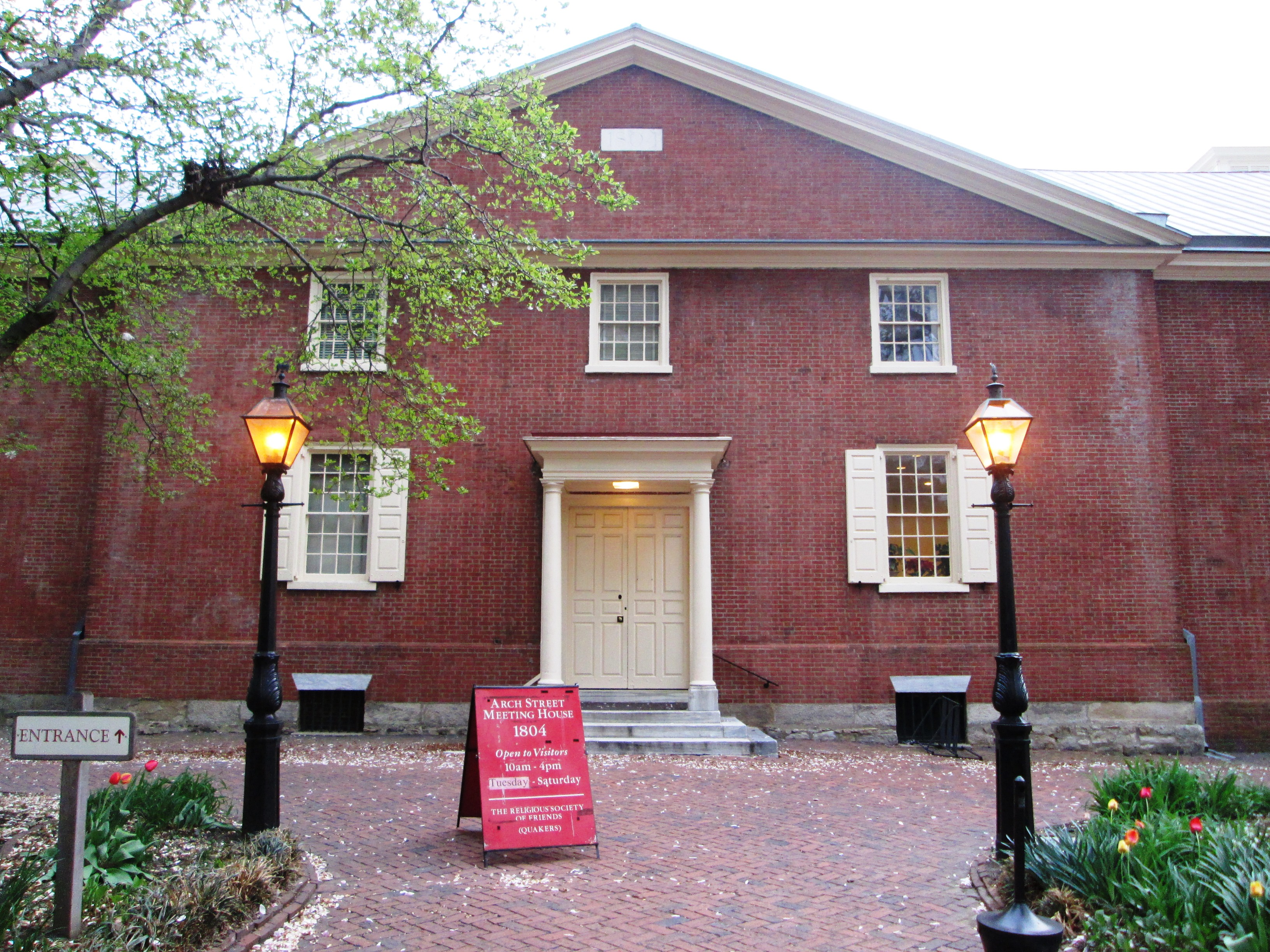 The Arch Street Meeting House on Arch Street at 4th Street in the Old City neighborhood of Philadelphia is the largest Quaker meeting House in the city and the second oldest. It was built in 1803-05 on land donated by William Penn in 1693 and originally used as a burial ground; the building was later expanded in 1810-11 The main building has a central portion which contains two rooms, and has two wings; the center and east wing were designed by Owen Biddle. Additions to the complex were made in 1968, designed by Cope & Lippincott. {Sources: Philadelphia Architecture: A Guide to the City (2nd ed.) and Architecture in Philadelphia: A Guide)